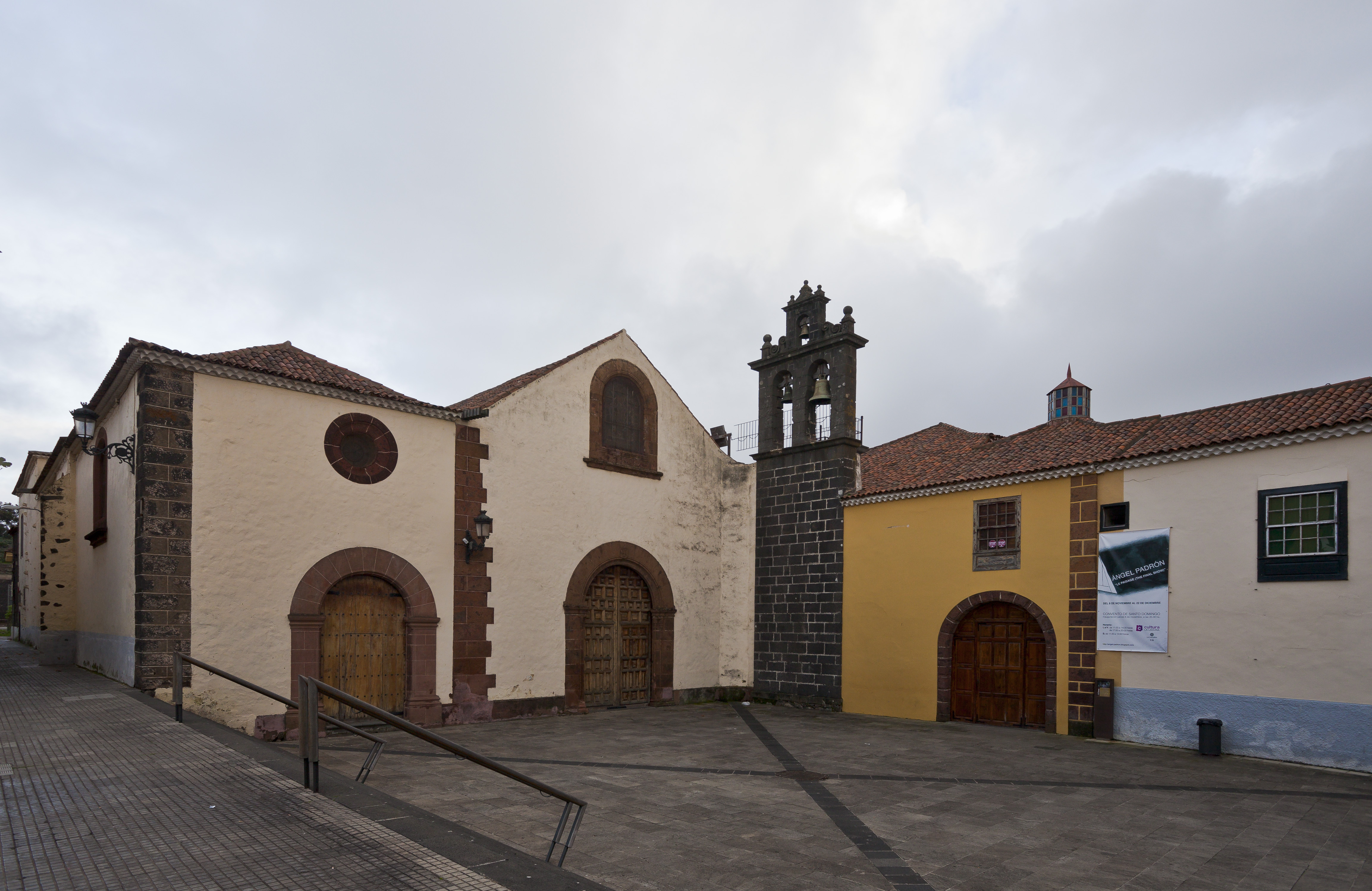 Santo Domingo de Guzmán Church, San Cristóbal de La Laguna, Tenerife, Spain